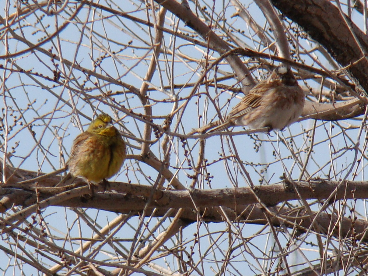 Yellowhammer (Emberiza citrinella, left) and Pine Bunting (Emberiza leucocephalos, right). Baikonur-town, Kazakhstan.